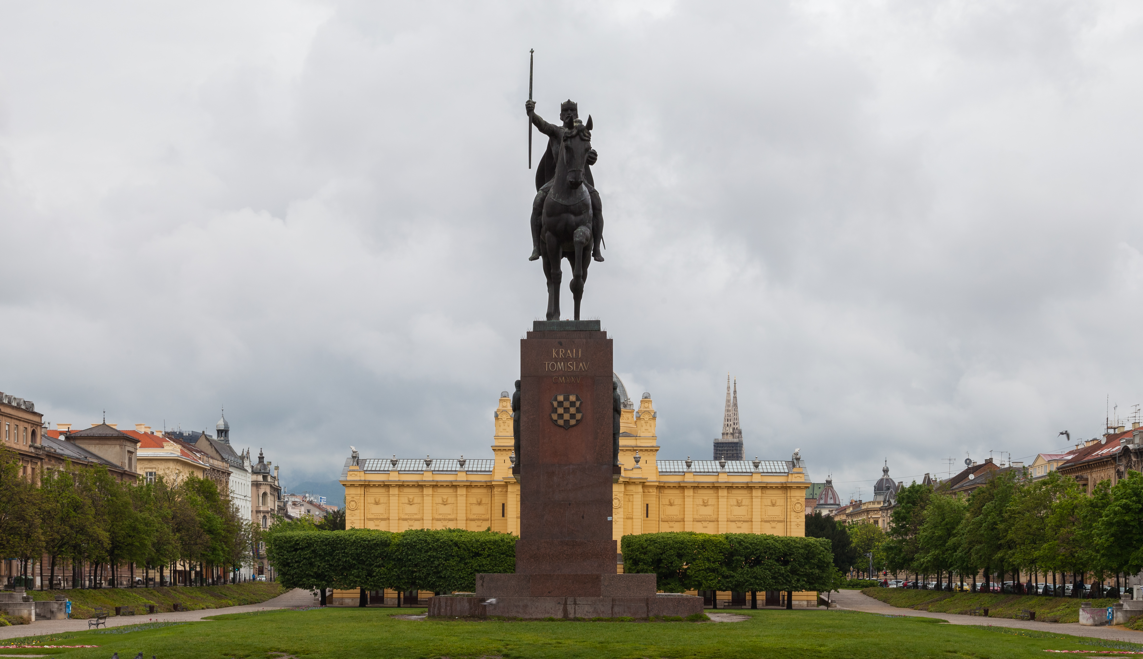 Statue of King Tomislav of Croatia, Zagreb, Croatia